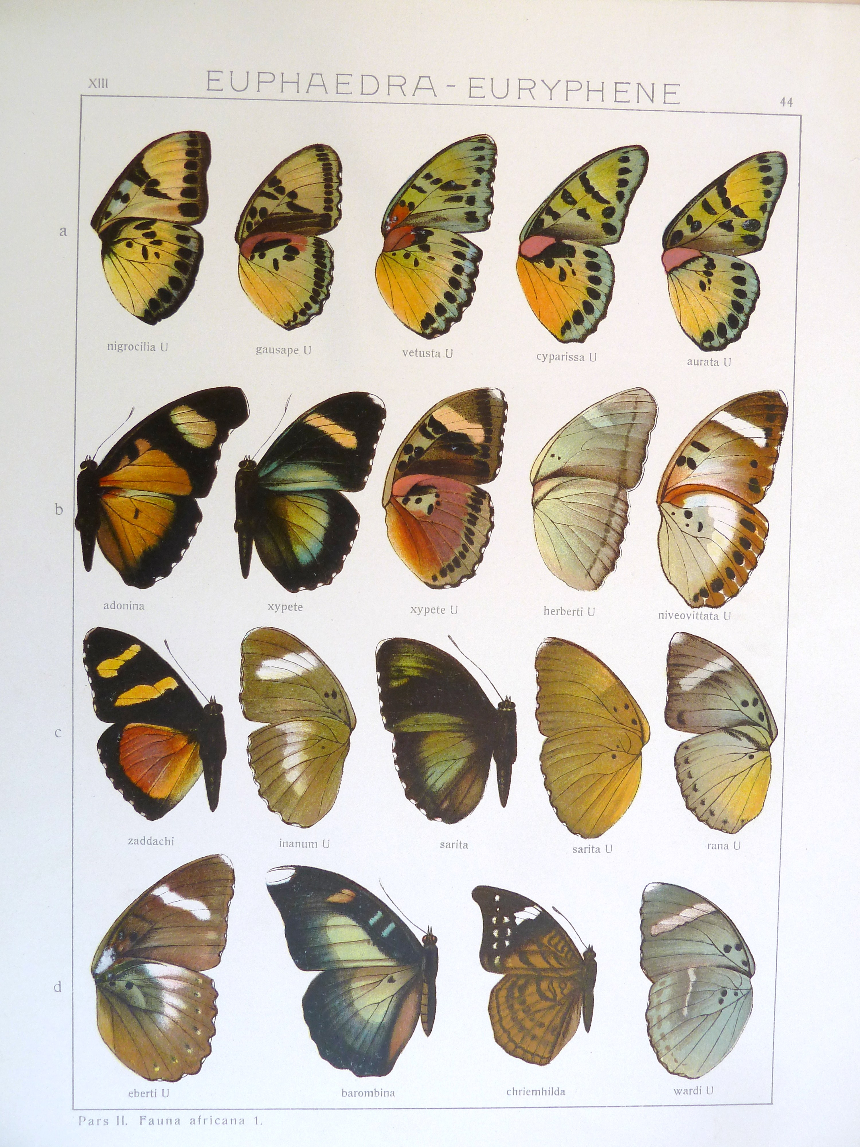 Adalbert Seitz Die Gross-Schmetterlinge der Erde 13: Die Afrikanischen Tagfalter. Plate XIII 44 E. viridicaerulea Bartel (= rana Stgr. i. I.) Euphaedra losinga wardi (Druce, 1874)